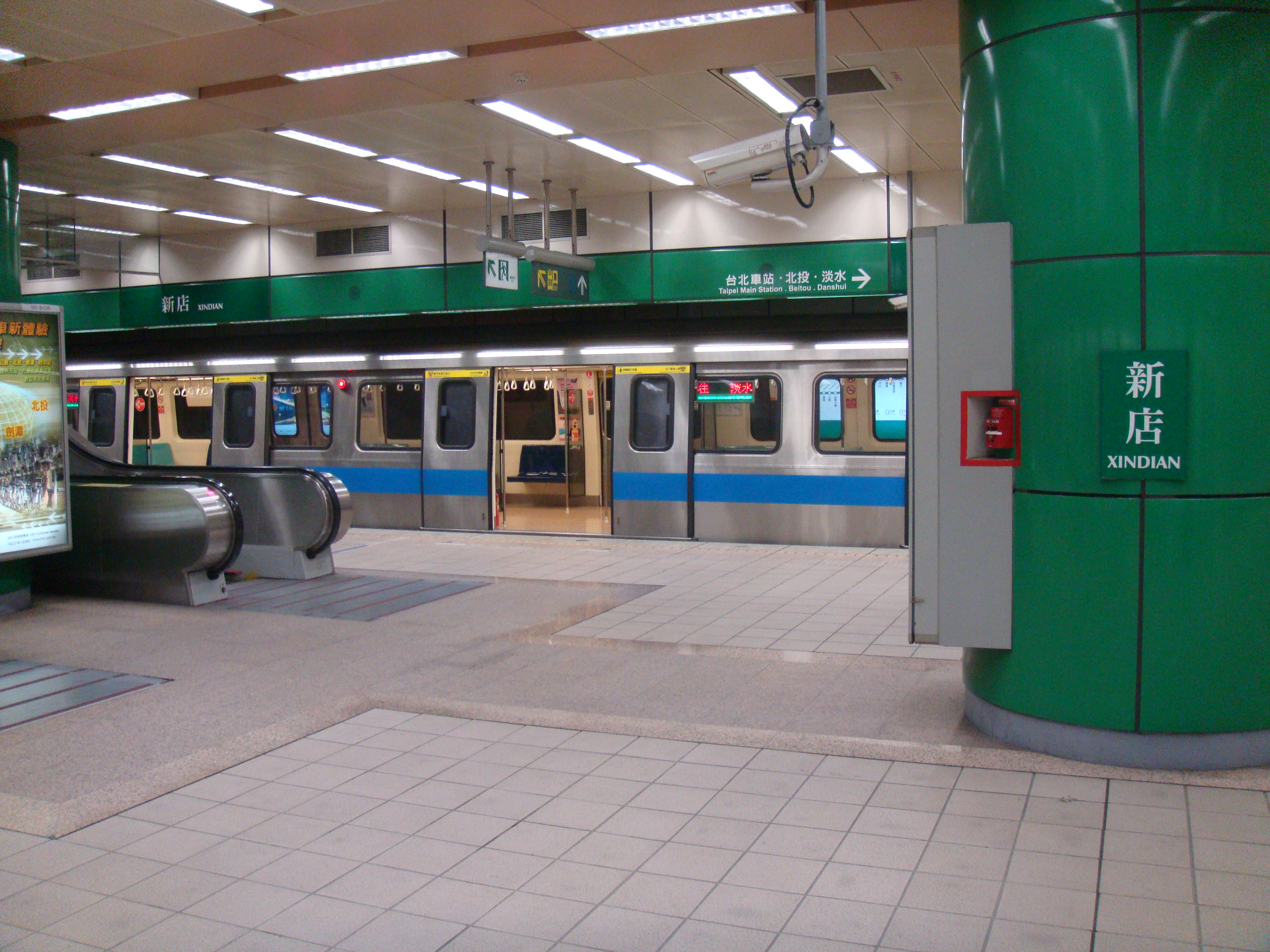 Xindian Station, Xindian Line, Taipei Metro, Taiwan.